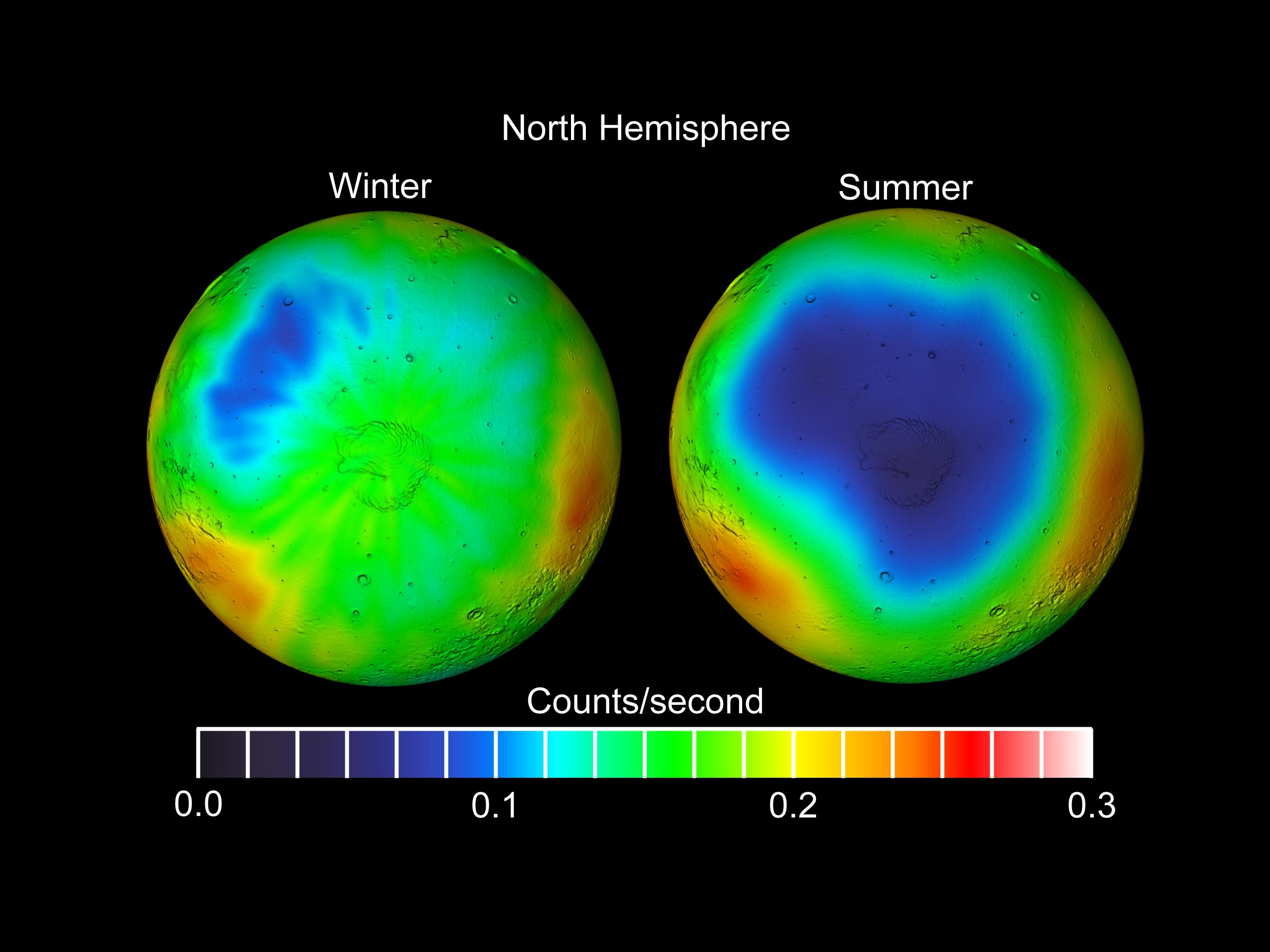 Observations by NASA's 2001 Mars Odyssey spacecraft show a comparison of wintertime (left) and summertime (right) views of the north polar region of Mars in intermediate-energy, or epithermal, neutrons. The maps are based on data from the high-energy neutron detector, an instrument in Odyssey's gamma-ray spectrometer suite. Soil enriched by hydrogen is indicated by the purple and deep blue colors on the maps. Progressively smaller amounts of hydrogen are shown in the colors light blue, green, yellow and red. The hydrogen is believed to be in the form of water ice. In some areas, the abundance of water ice is estimated to be up to 90% by volume. In winter, much of the hydrogen is hidden beneath a layer of carbon dioxide frost (dry ice). In the summer, the hydrogen is revealed because the carbon dioxide frost has dissipated. A shaded-relief rendition of topography is superimposed on these maps for geographic reference. NASA's Jet Propulsion Laboratory manages the 2001 Mars Odyssey mission for NASA's Office of Space Science, Washington, D.C. Investigators at Arizona State University in Tempe, the University of Arizona in Tucson, and NASA's Johnson Space Center, Houston, operate the science instruments. The gamma-ray spectrometer was provided by the University of Arizona in collaboration with the Russian Aviation and Space Agency and Institute for Space Research (IKI), which provided the high-energy neutron detector, and the Los Alamos National Laboratories, New Mexico, which provided the neutron spectrometer. Lockheed Martin Astronautics, Denver, is the prime contractor for the project, and developed and built the orbiter. Mission operations are conducted jointly from Lockheed Martin and from JPL, a division of the California Institute of Technology in Pasadena.